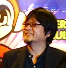 Film director Mamoru Hosoda at Anime Festival Asia 2009 in Singapore. Probable picture date: 2009-11-20.